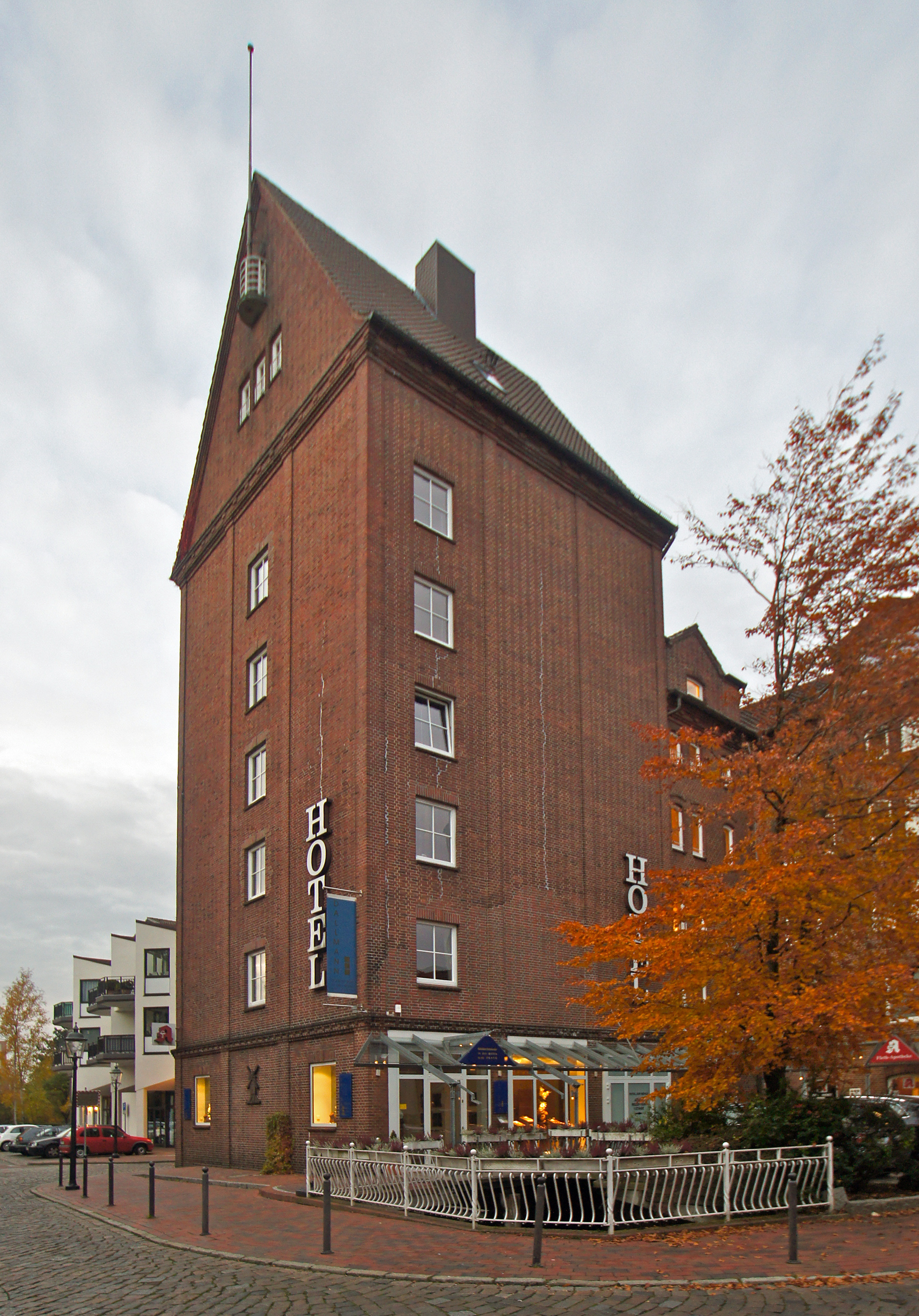 Buxtehude, Germany: The former water mill